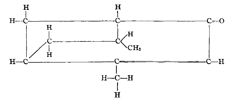 structuur formule